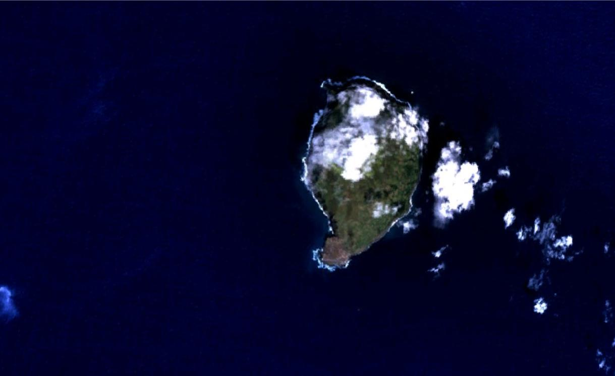 Satellite image of Corvo, Azores, Portugal